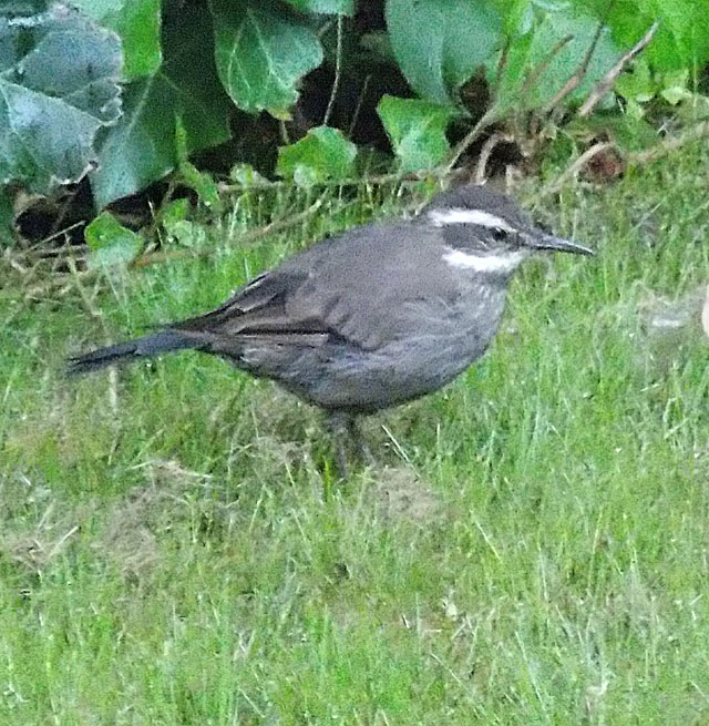 Churrete Chico or Grey-flanked Cinclodes In context at